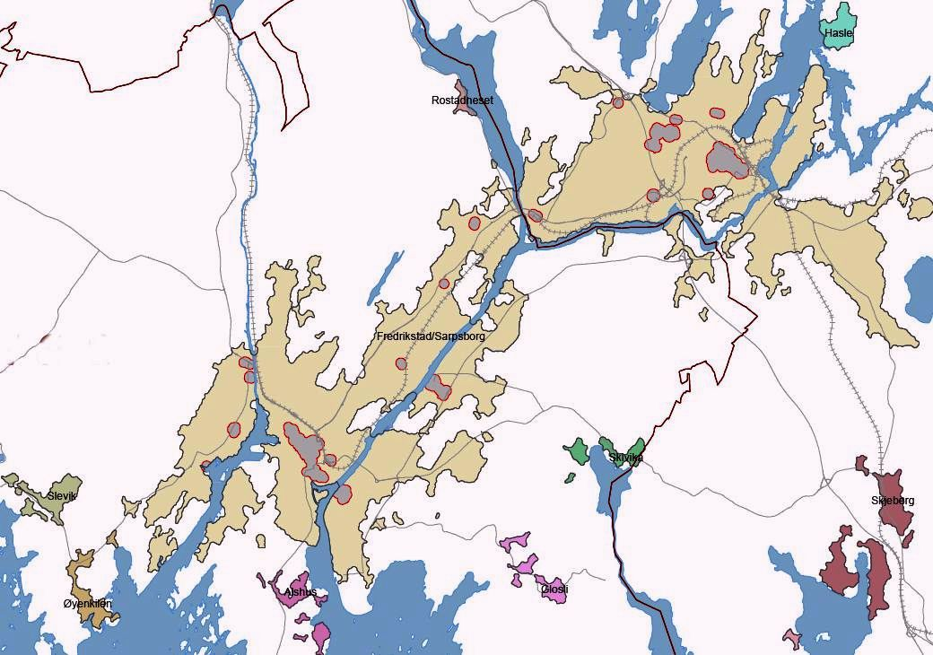 Urban area of Fredrikstad-Sarpsborg